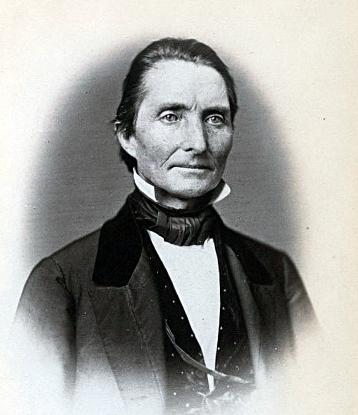 Aaron Shaw, US Representative from Illinois This is a retouched picture, which means that it has been digitally altered from its original version. Modifications: Cropped and some other things.